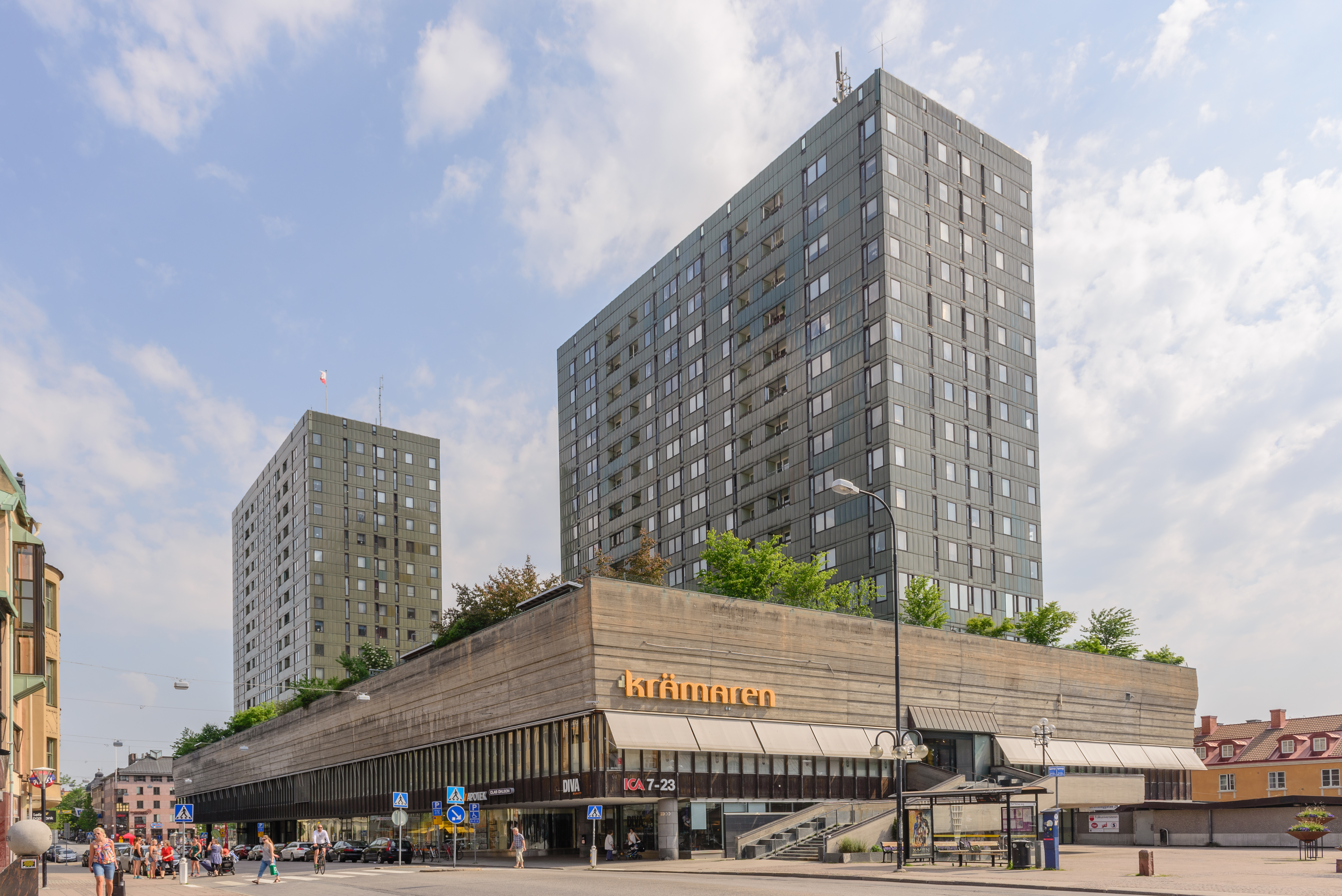 Krämaren, Örebro (Sweden. Built 1955-63.